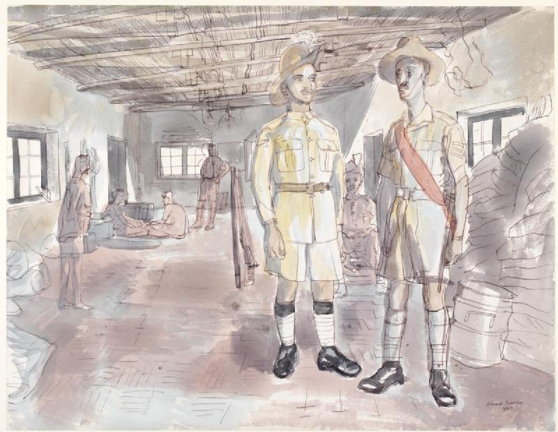 Baghdad- Kurdish Levies; on the left a man in ceremonial dress, and by him an Orderly Sergeant image: in the foreground two soldiers stand side by side: on the left a man in ceremonial dress, and next to him an Orderly Sergeant. They are standing in a barrack room with several other Kurdish levies in the background.